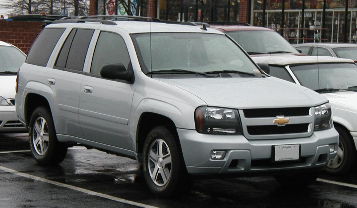 2006-2007 Chevrolet TrailBlazer photographed in USA.